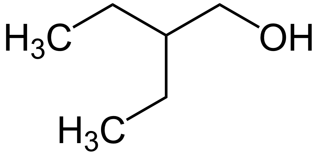 Structural formula of 2-ethyl-1-butanol, a hexanol isomer